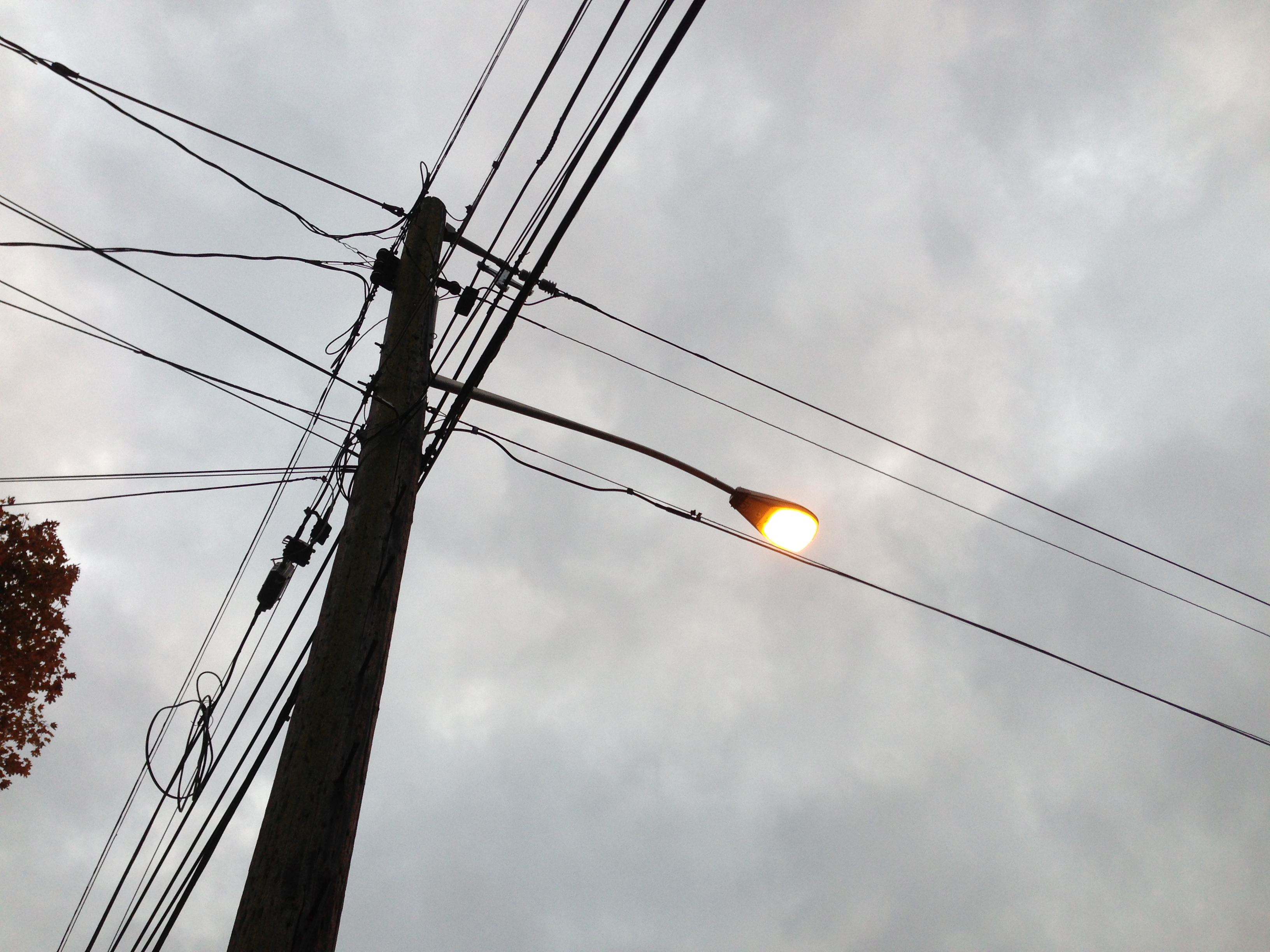 Recently activated sodium vapor street light along Terrace Boulevard in Ewing, New Jersey